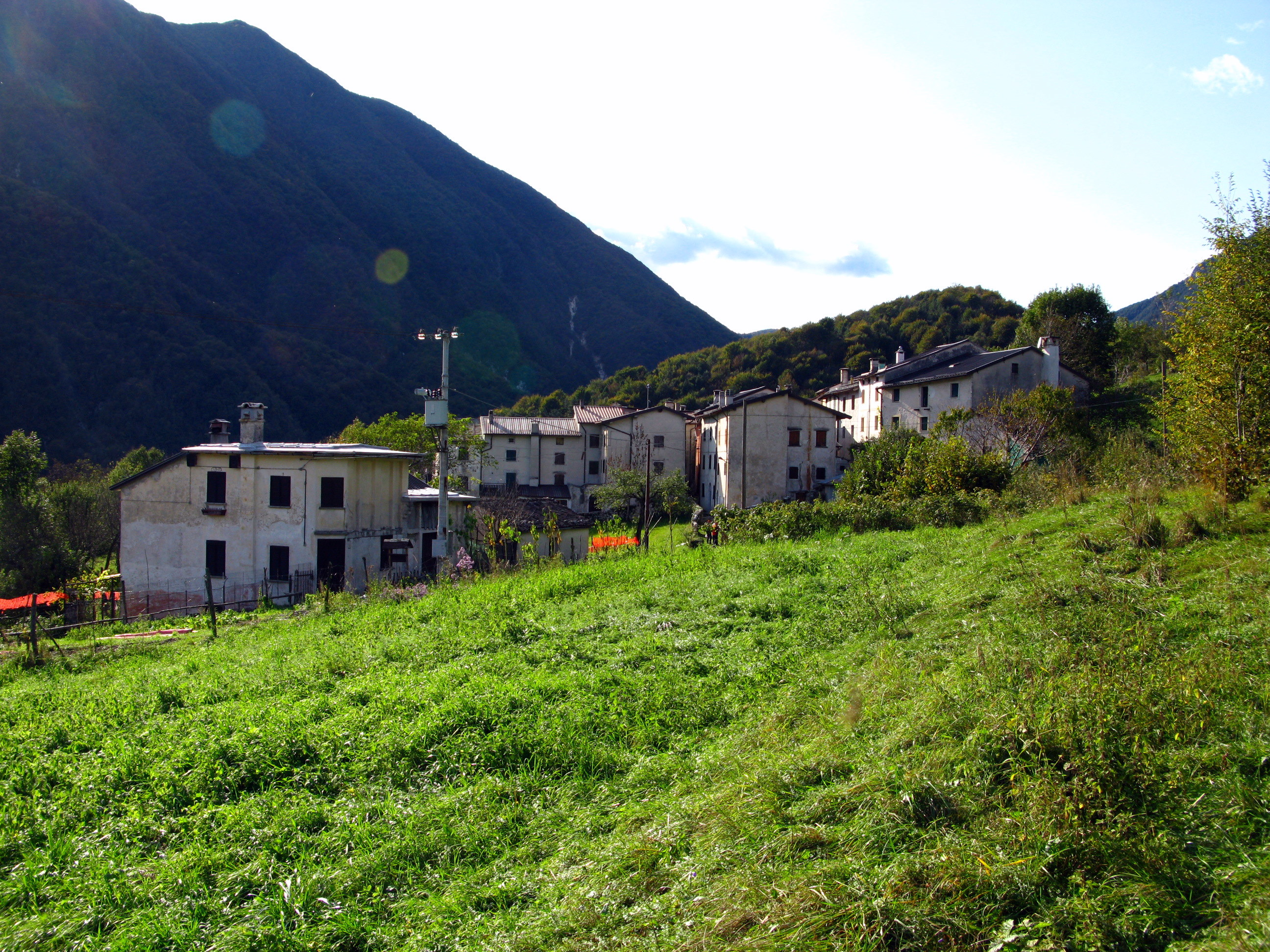 Stavoli a nearly abandoned villages near Moggio Udinese / Friuli-Venezia Giulia / Italy / EU.